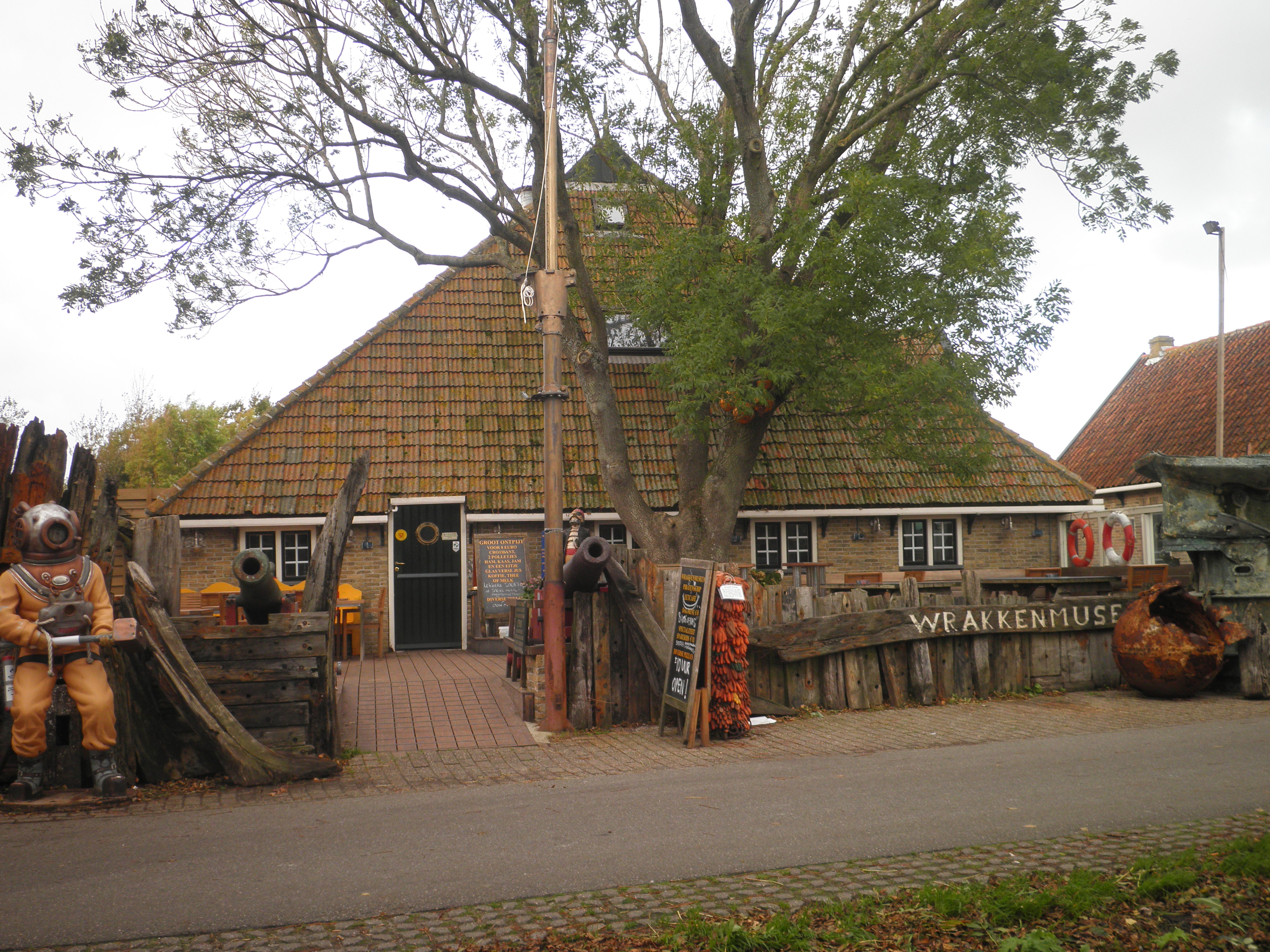 Simple farmhouse from 1859 and barn from 1906, now in use as museum of wrecks at Formerum Zuid 13 on the island of Terschelling in the Netherlands. Nationally listed heritage.